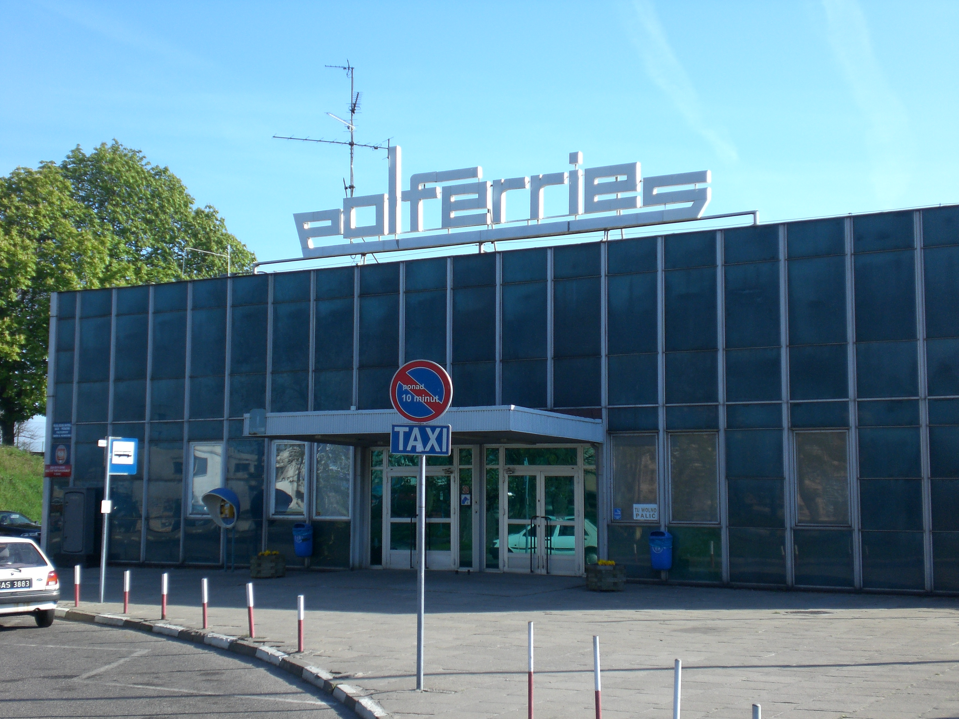 Ferry terminal in Nowy Port